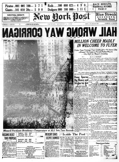 Front page of the New York Post newspaper with a backwards headline and the news that flyer Douglas "Wrong Way" Corrigan had returned to the United States from the flight which took him to Ireland